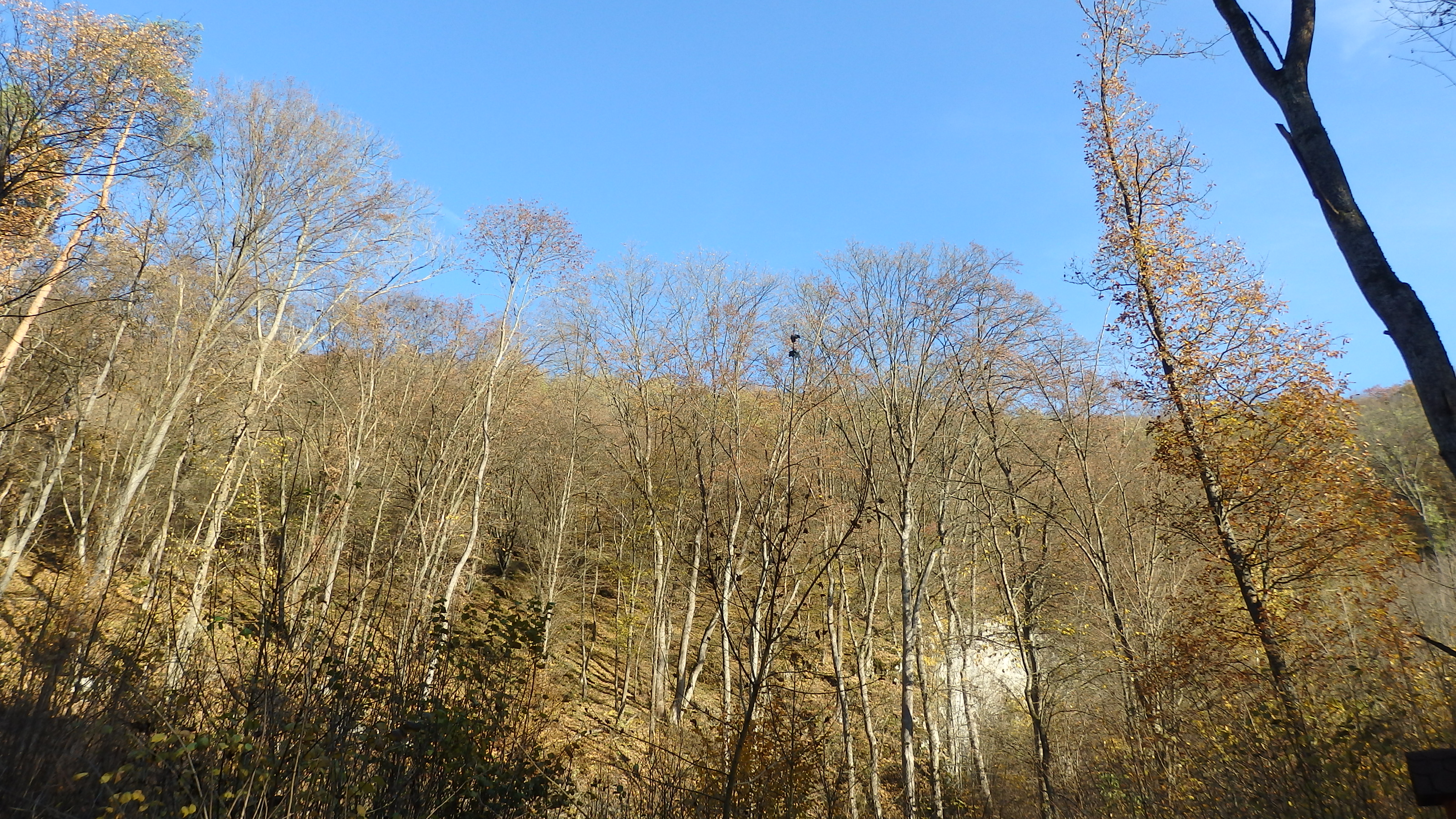 Přírodní park Říčky, klidová oblast na rozhraní okresů Blansko, Brno-venkov a Vyškov, u Ochozské jeskyně